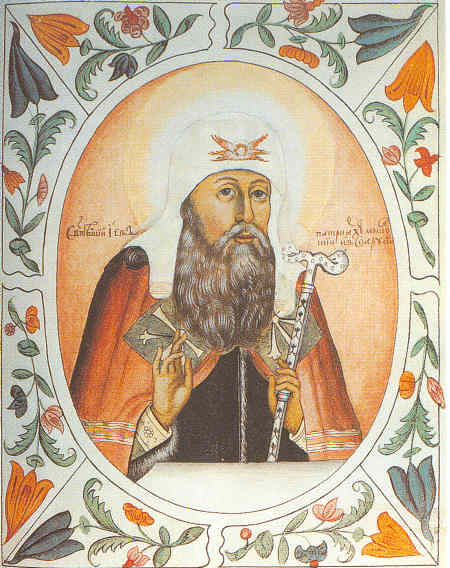 Patriarch Job of Moscow (from Tsarskiy titulyarnik)